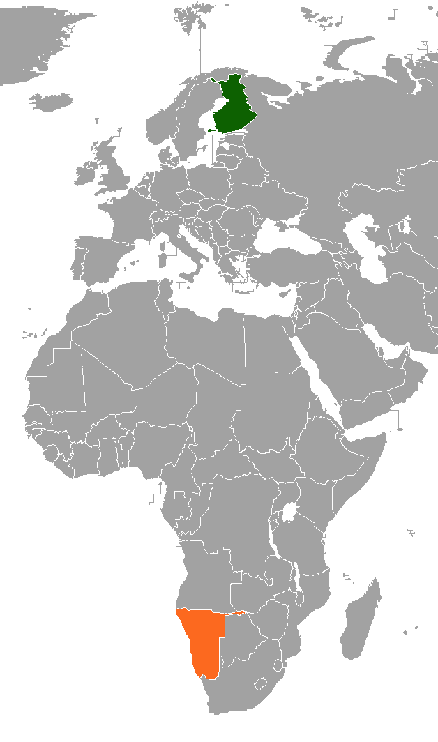 Finland Namibia Locator